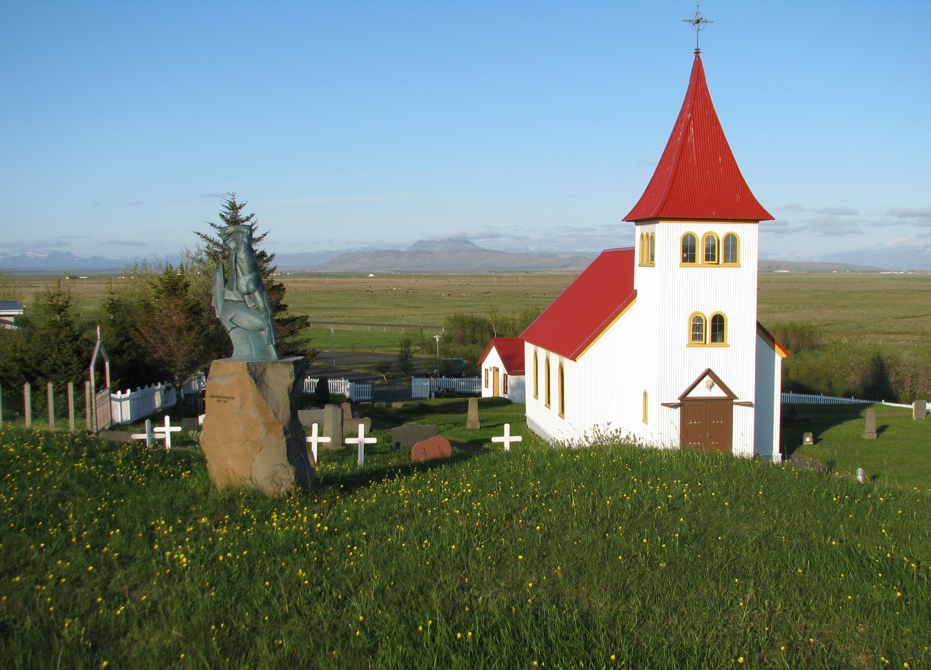 Oddii, a farm, church and parsonage in South Iceland.